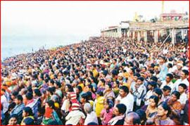 This photograph shows a part of devotees crowded at Avatharapathi located at the shores of Tiruchendur Sea, celebrating the 181-st Ayya Vaikunda Avataram during the early hours of the 20th Masi (March 4 2013).